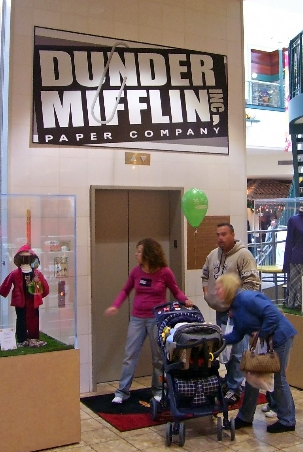 Dunder Mifflin corporate logo on elevator shaft at Mall at Steamtown in Scranton, PA, USA